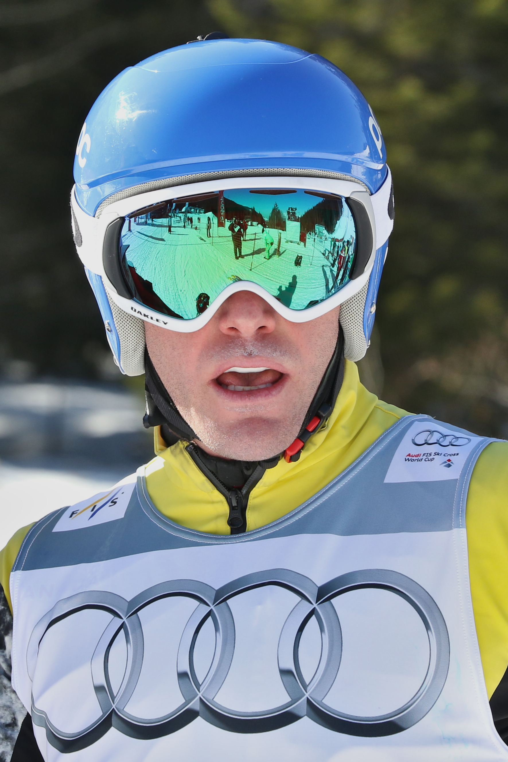 FIS Ski Cross World Cup 2015 - Megève - 20150313 - Christopher Delbosco